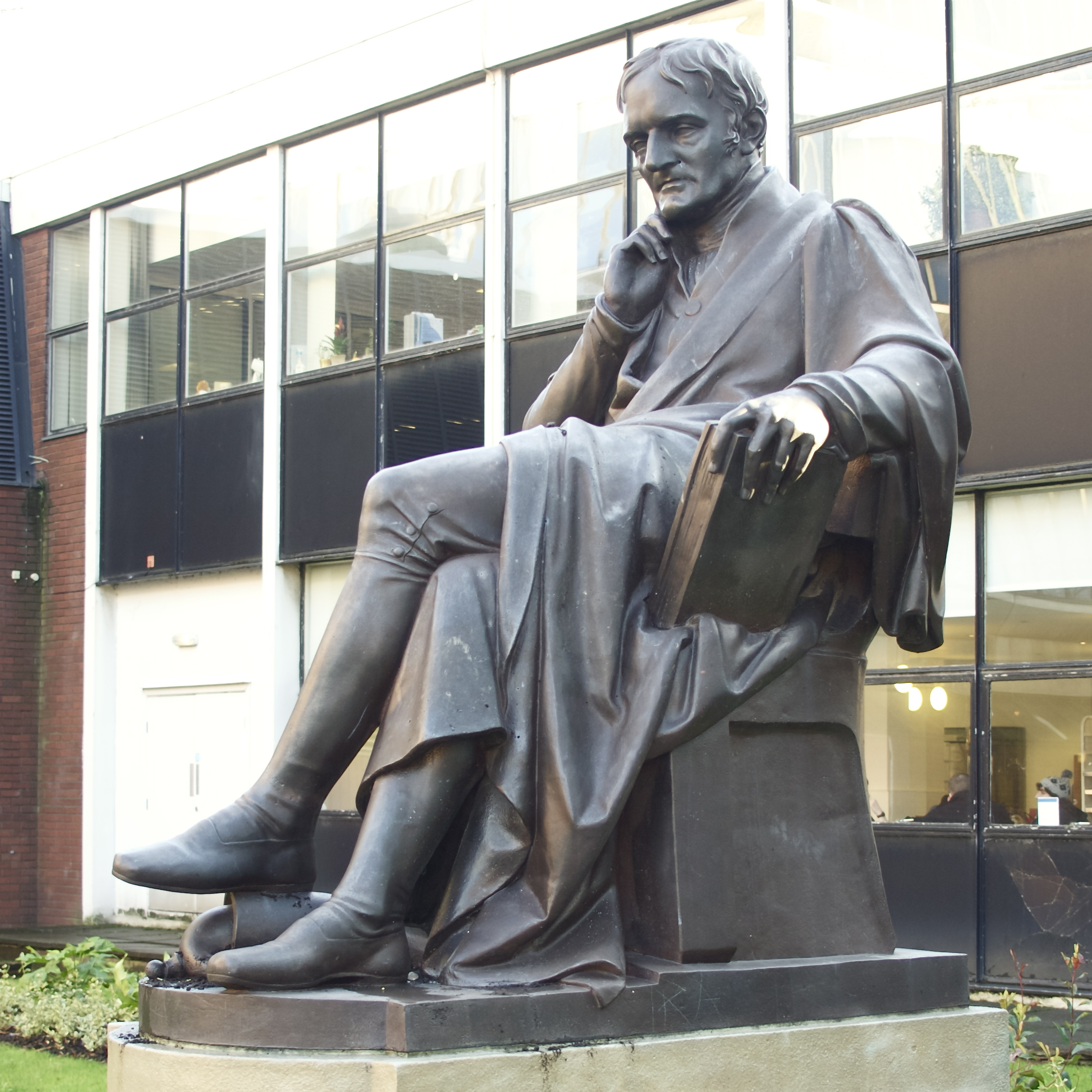 This bronze statue of the chemist John Dalton by William Theed stands on Chester Street in Manchester.